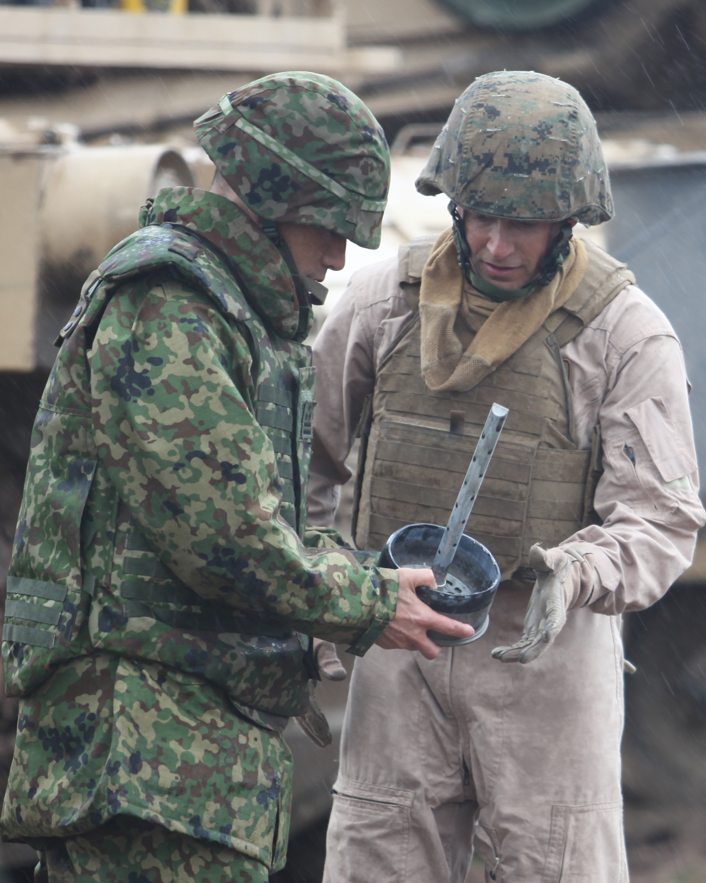 Col. Akira Kurosawa, commanding officer of the Western Army Infantry Regiment, receives a spent tank round from Lt Col. Timothy E. Barrick, commanding officer of 1st Tank Battalion from Marines Corps Air Ground Combat Center, Twentynine Palms, Calif., aboard Camp Pendleton, Calif. The soldiers are participating in Exercise Iron Fist, a bilateral training exercise to strengthen the bonds between the U.S. and Japanese militaries.